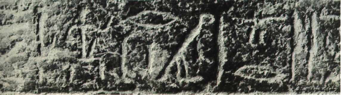 Merenptah Stele (Israel Stele): the photograph showing the part of the inscription where it says foreign nation Ysyrial (line 27) *note: picture is in mirror error